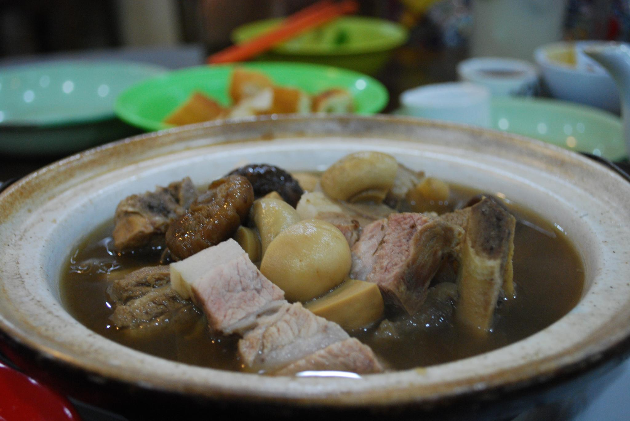 Not bad bak kut teh, but Klang still has the best Claypot Bak Kut Teh. Teo Chew Bak Kut Teh 潮州肉骨茶 26, 28 Jalan SS2/66, 47300 PJ, Selangor GPS: 3.119294, 101.620284 Tel: 03-7875 2025 Reviews - Teo Chew Bak Kut Teh (潮州肉骨茶) at PJ SS2 - KY Speaks, June 28th 2007 - BKT @ Restoren Teo Chew Bak Kut Teh, SS2, PJ - Memoirs of a Chocoholic, Friday, October 16, 2009 - SS2 Teo Chew Bak Kut Teh - Food POI Not bad bak kut teh, but Klang still has the best Claypot Bak Kut Teh. Teo Chew Bak Kut Teh 潮州肉骨茶 26, 28 Jalan SS2/66, 47300 PJ, Selangor GPS: 3.119294, 101.620284 Tel: 03-7875 2025 Reviews - Teo Chew Bak Kut Teh (潮州肉骨茶) at PJ SS2 - KY Speaks, June 28th 2007 - BKT @ Restoren Teo Chew Bak Kut Teh, SS2, PJ - Memoirs of a Chocoholic, Friday, October 16, 2009 - SS2 Teo Chew Bak Kut Teh - Food POI